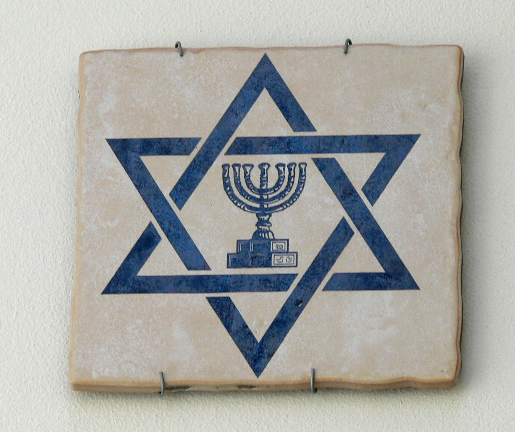 Třebíč ( Czech Republic ). Jewish Quarter: Sign with Star of David and Menorah.